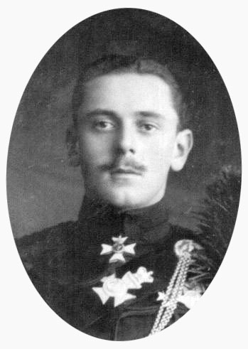 This is an image of Prince Maurice Victor Donald von Battenberg taken in 1891. He is seen here wearing the neck badge of a Knight Commander of the Royal Victorian Order. It is believed that its age puts it into the public domain. The photograph of Prince Maurice could not have been taken in 1891. His birth year is 1891. I do not know the exact year the photo was taken but it must have been in the early 20th century since he died in 1914 during the Great War. Britishgirl